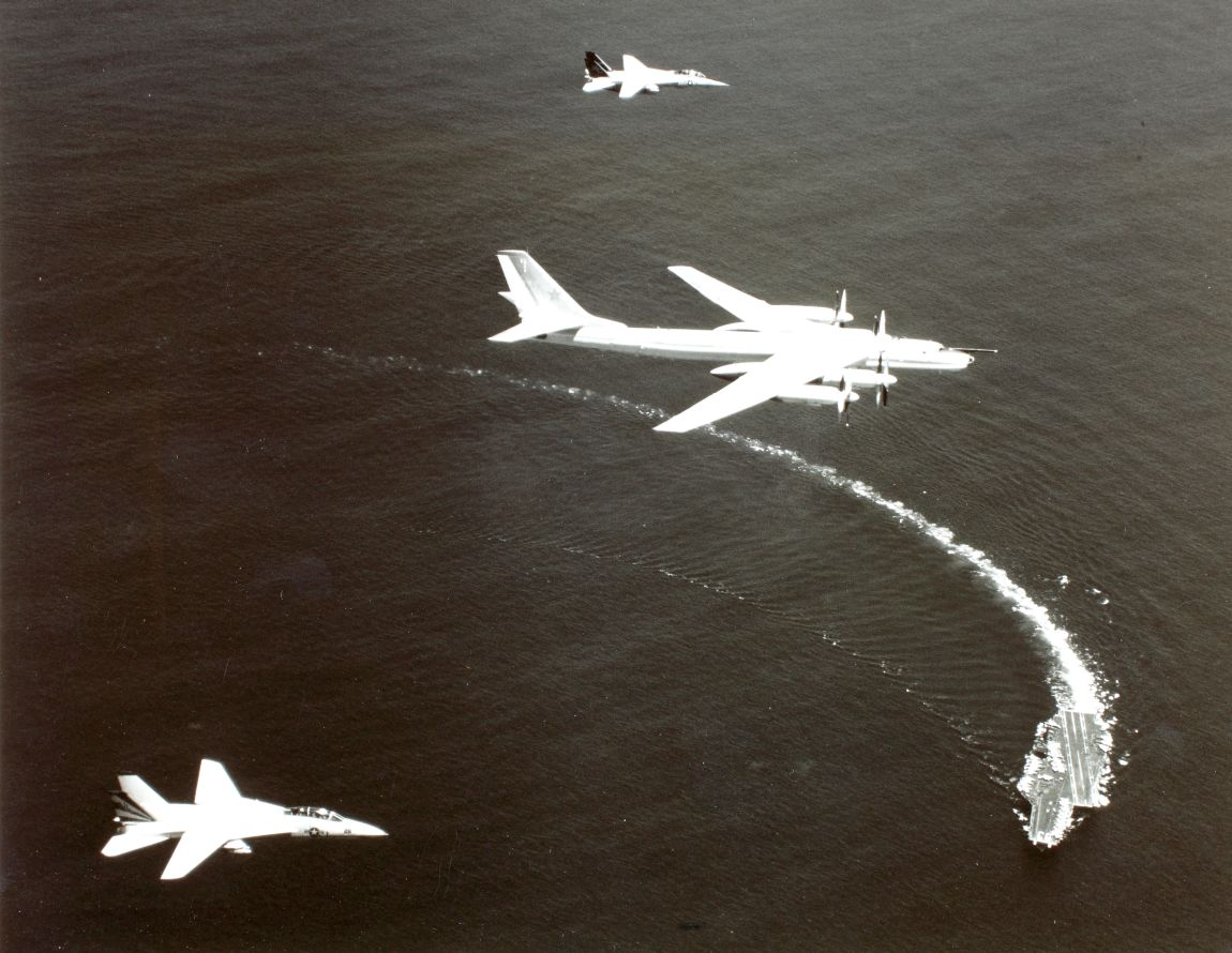 A pair of Grumman F-14A Tomcats of VF-111, ""The Sundowners"", shadow a Soviet Tupolev TU-95 Bear while flying above the USS Kitty Hawk (CV-63)